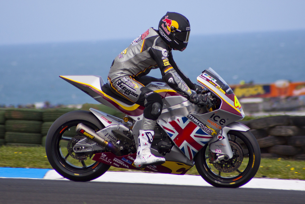 Scott Redding (Moto2) - Phillip Island MotoGP 2010